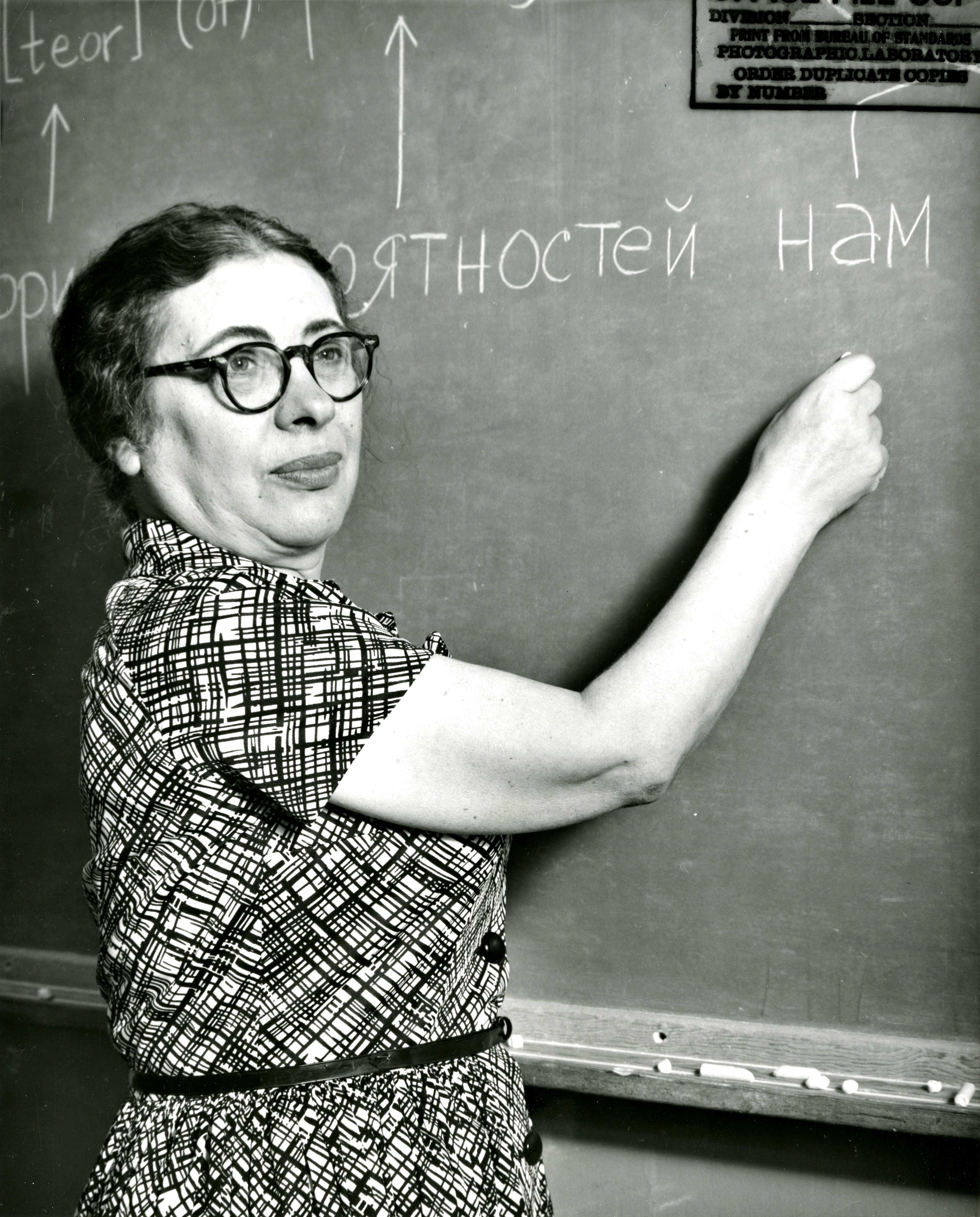 Ida Rhodes at the National Bureau of Standards (NBS). Mathematician and computer expert Ida Rhodes worked at NBS from 1940-1975. Rhodes designed the C-10 language used by one of the earliest computers, the UNIVAC 1. She also worked on computer translation of Russian, gave lectures to government agencies and private firms to promote the computers’ ability to make their work more efficient, and taught computer coding to people with physical disabilities. In 1977, she developed an algorithm for computing the dates of the Jewish holidays that is still used today.